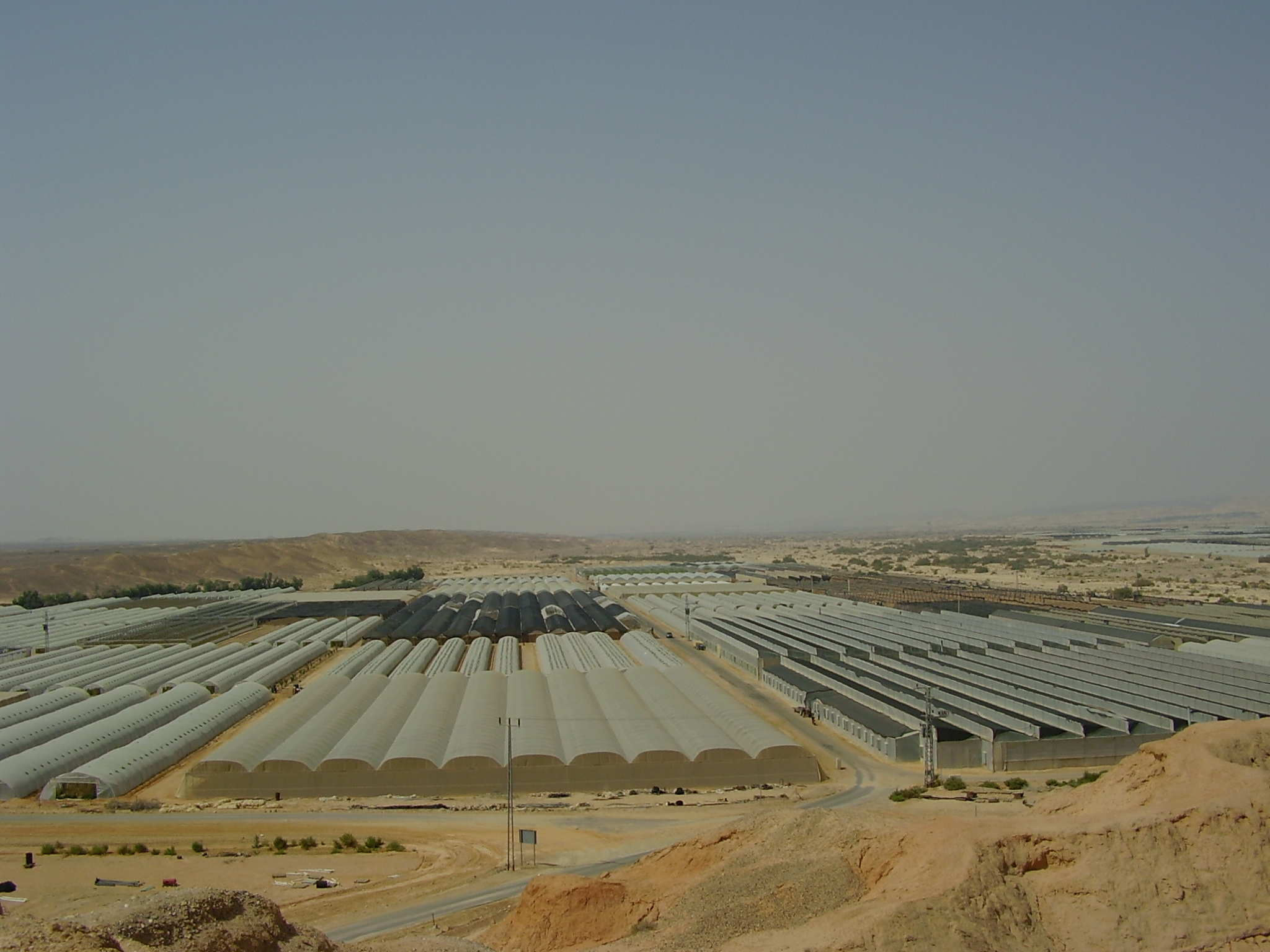 Ein-yahav hot-houses